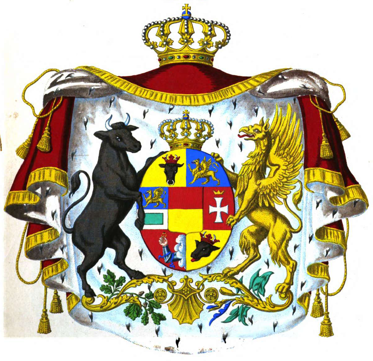 Coat of arms of duchies Mecklenburg-Schwerin & Mecklenburg-Strelitz